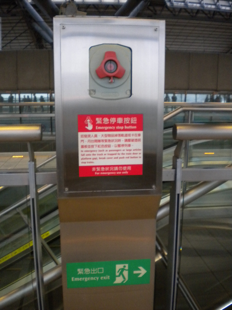 Emergency stop button in Taiwan High Speed Rail Tainan Station